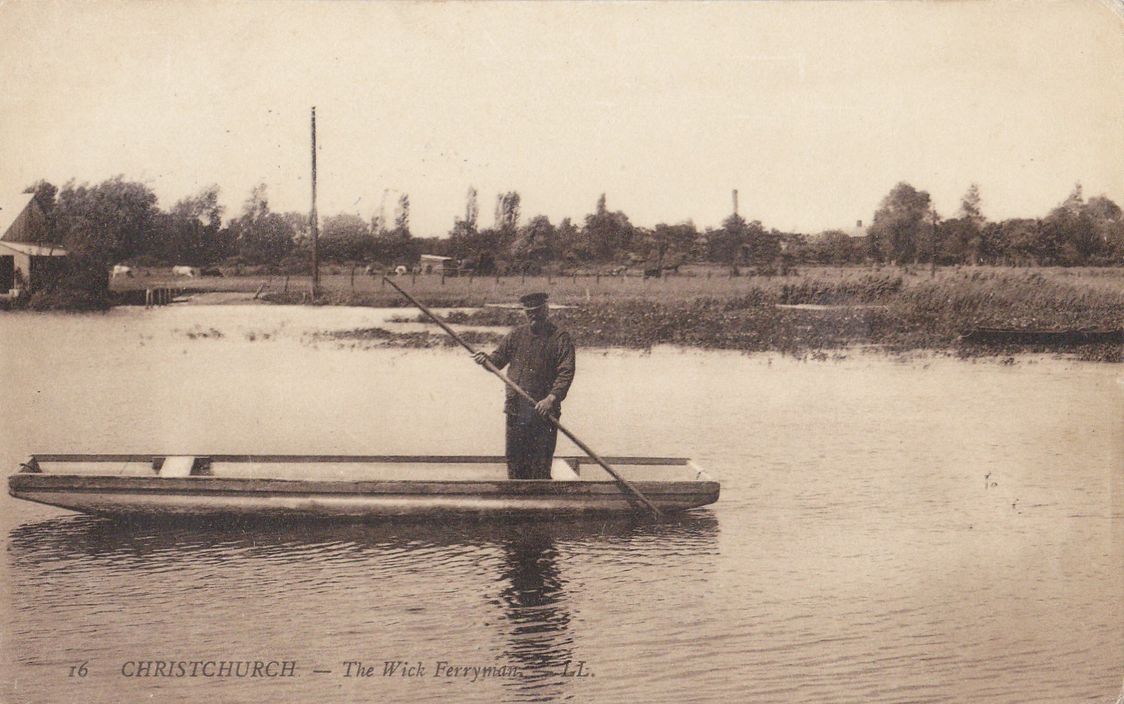 Ferryman at Wick, Bournemouth. Postmarked 18 February 1913. The ferryman in question is likely to be John O'Brien (c. 1847-1929), who lived in a cottage on the south side of Wick Green, and was so tall that his sister had to have boots specially made for him.